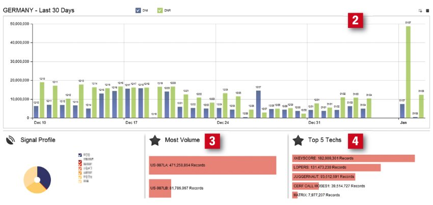 Boundless Informant Screencap Germany - Last 30 days Signal Profile Most Volume Top Five Techs